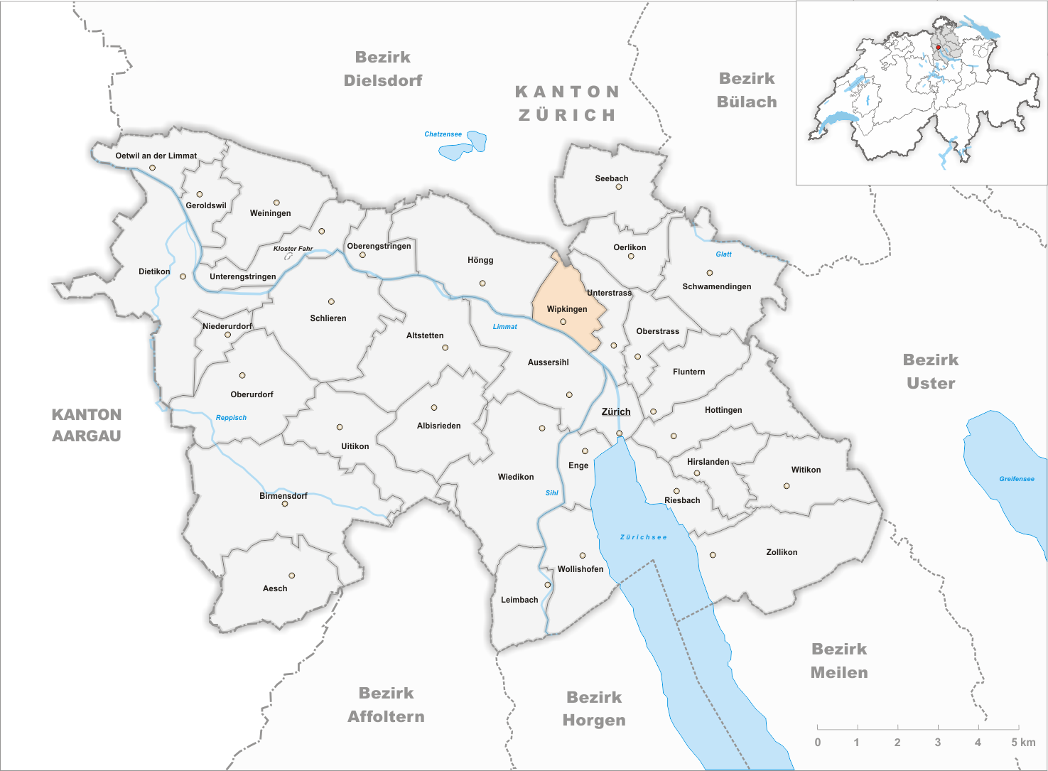 Municipality Wipkingen